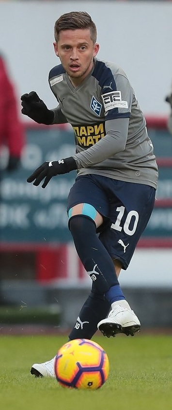 Jano Ananidze with PFC Krylia Sovetov Samara in a game against FC Lokomotiv Moscow.